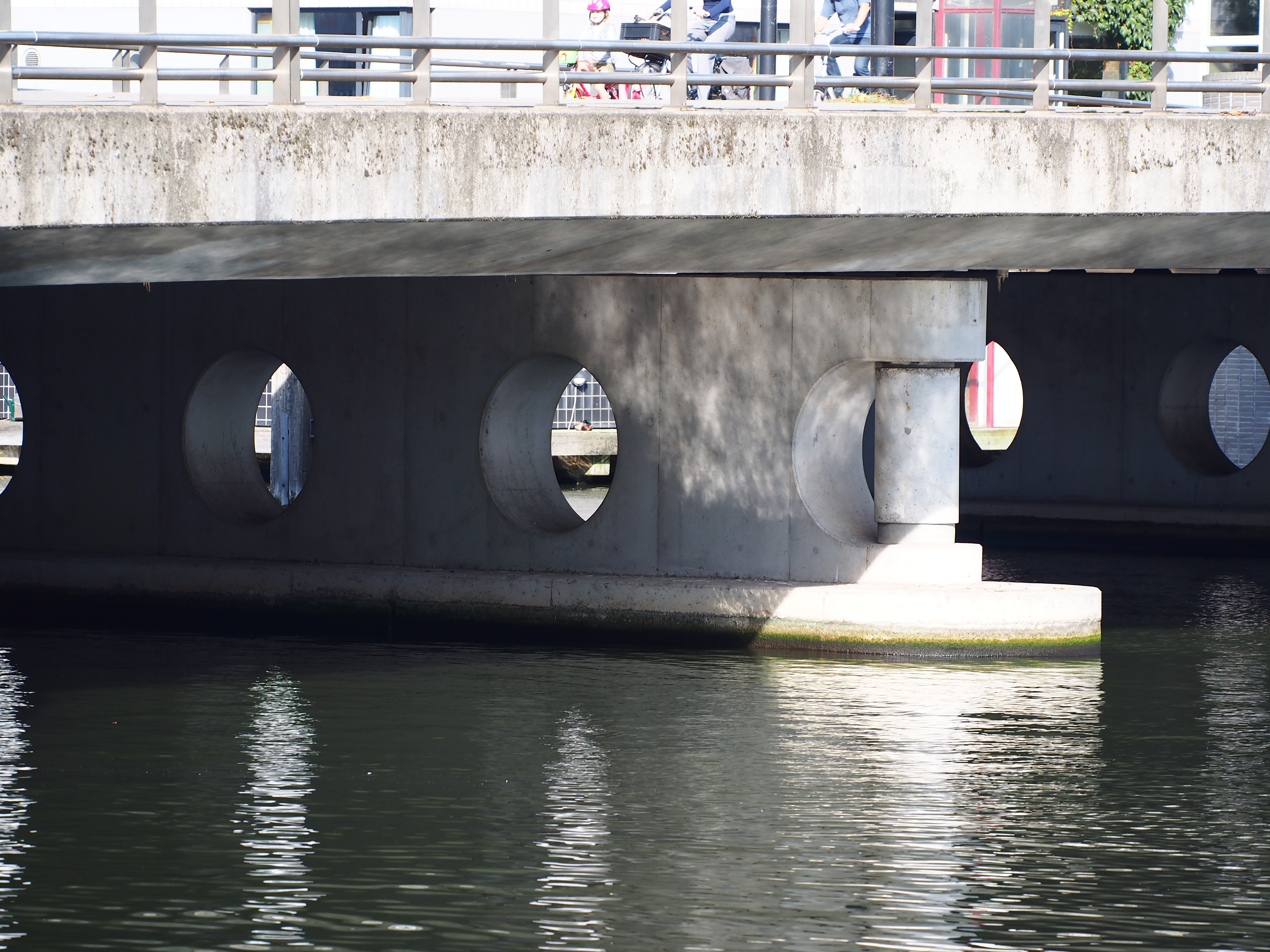 Photographed at Amsterdam.